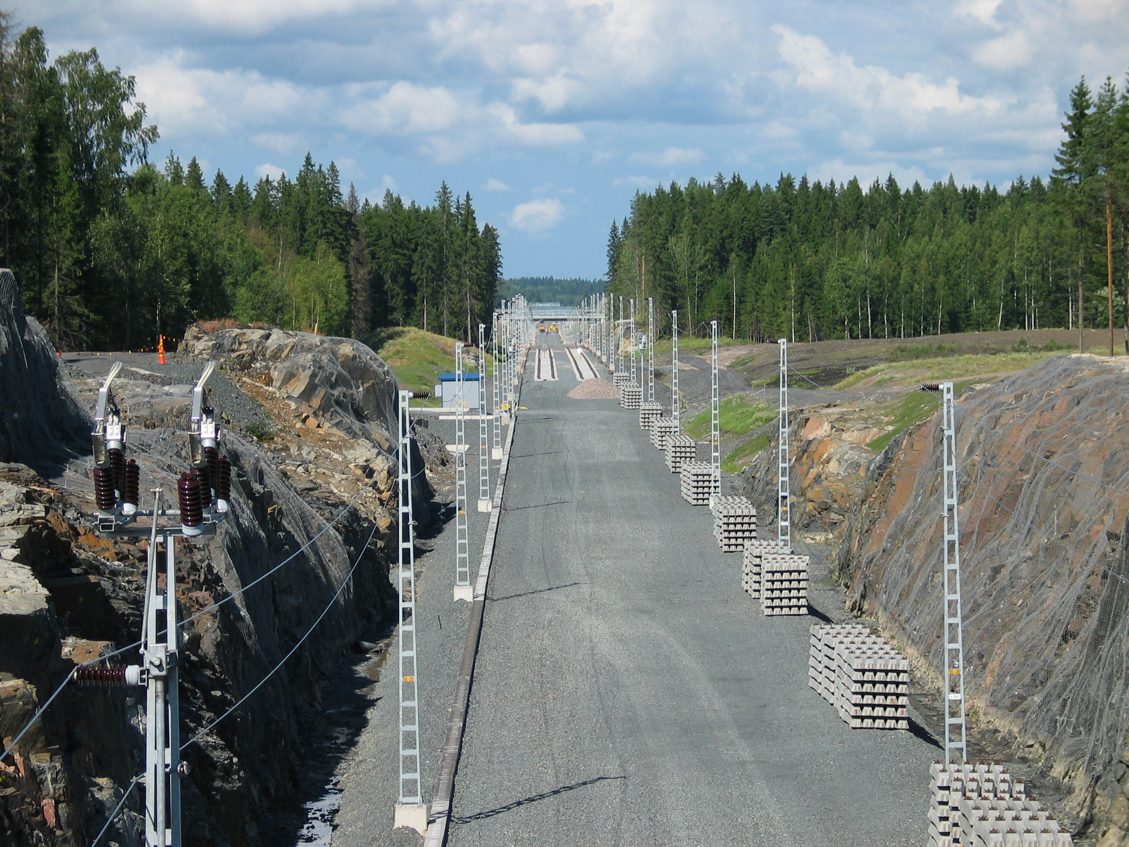 Tracks being laid on Kerava–Lahti railway in Mäntsälä Finland. Image taken from the bridge of Hanko–Porvoo road (highway 25). Bridge was still under construction.